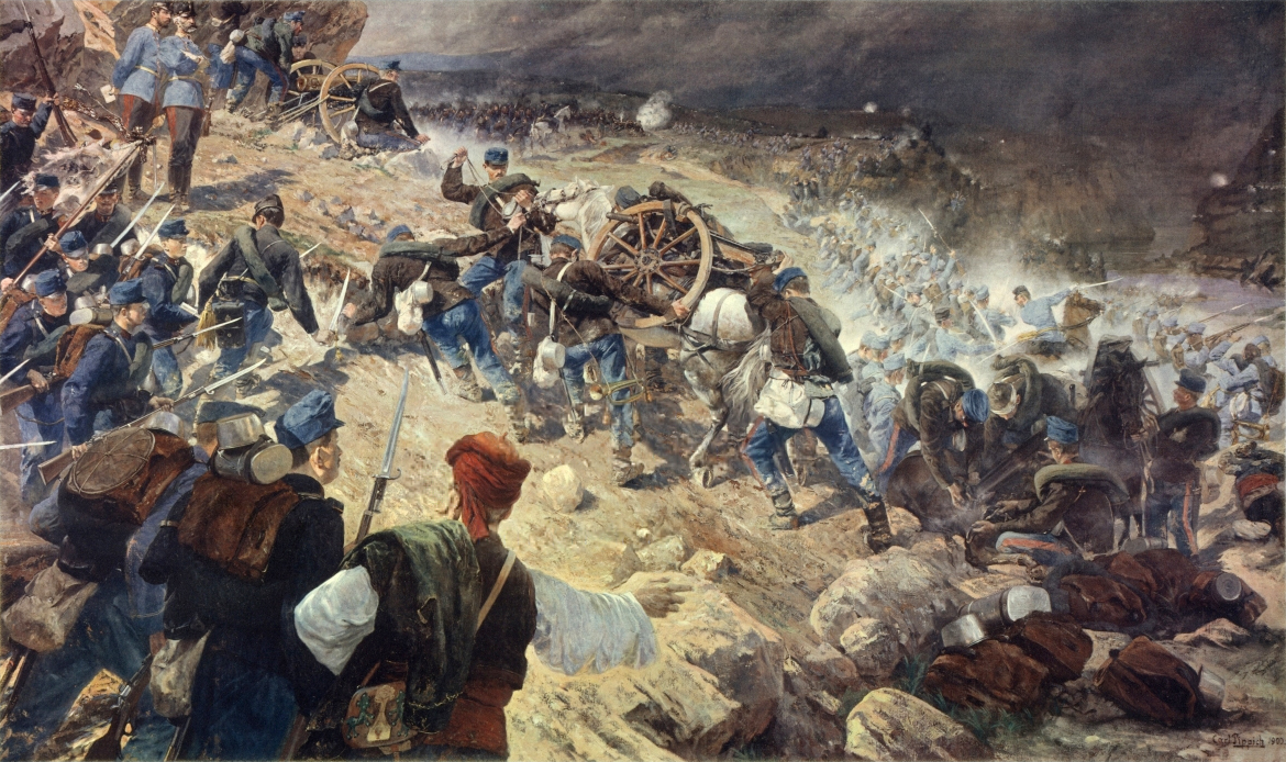 Battle of Jaice 1878